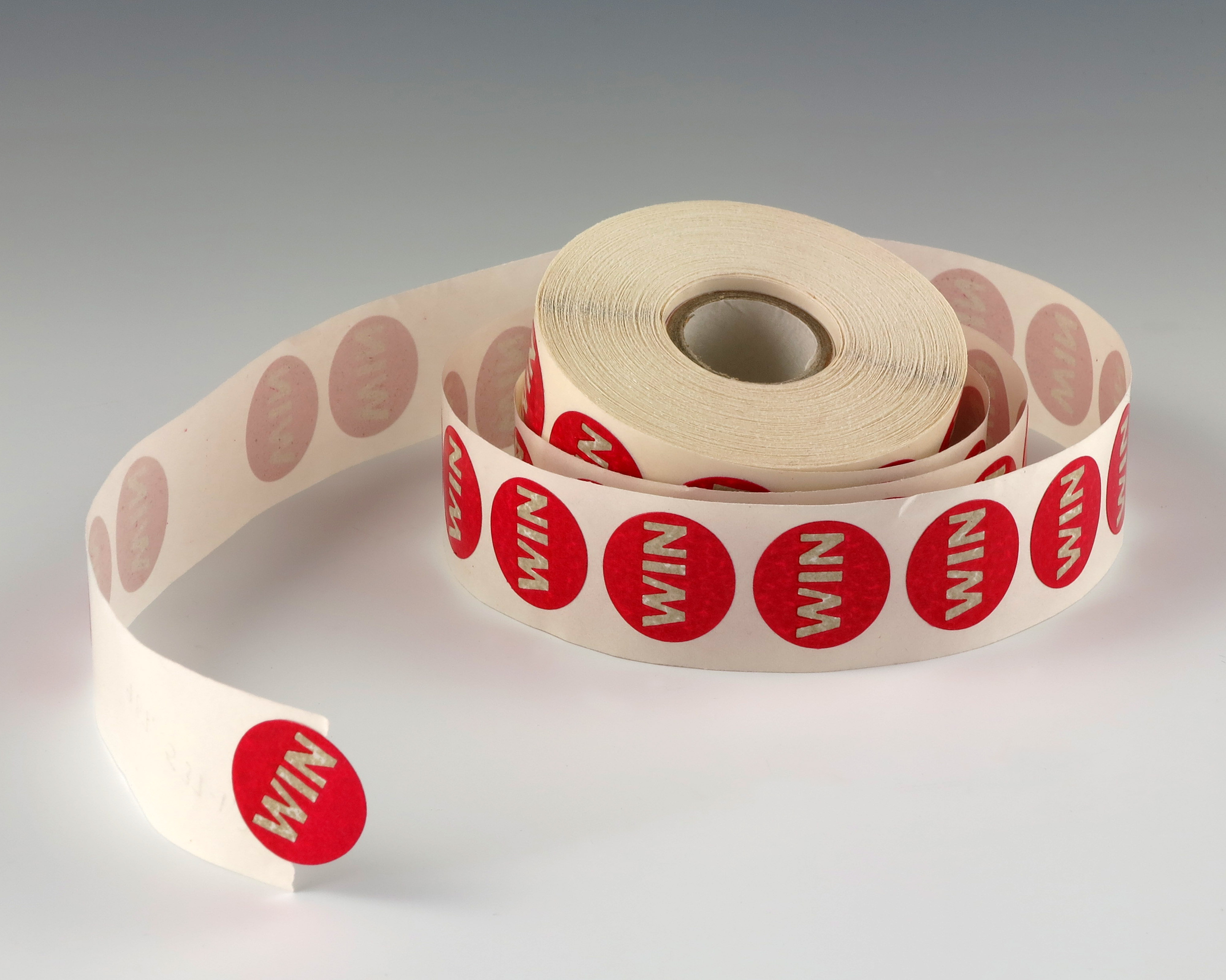 Roll of red and white “WIN” stickers.